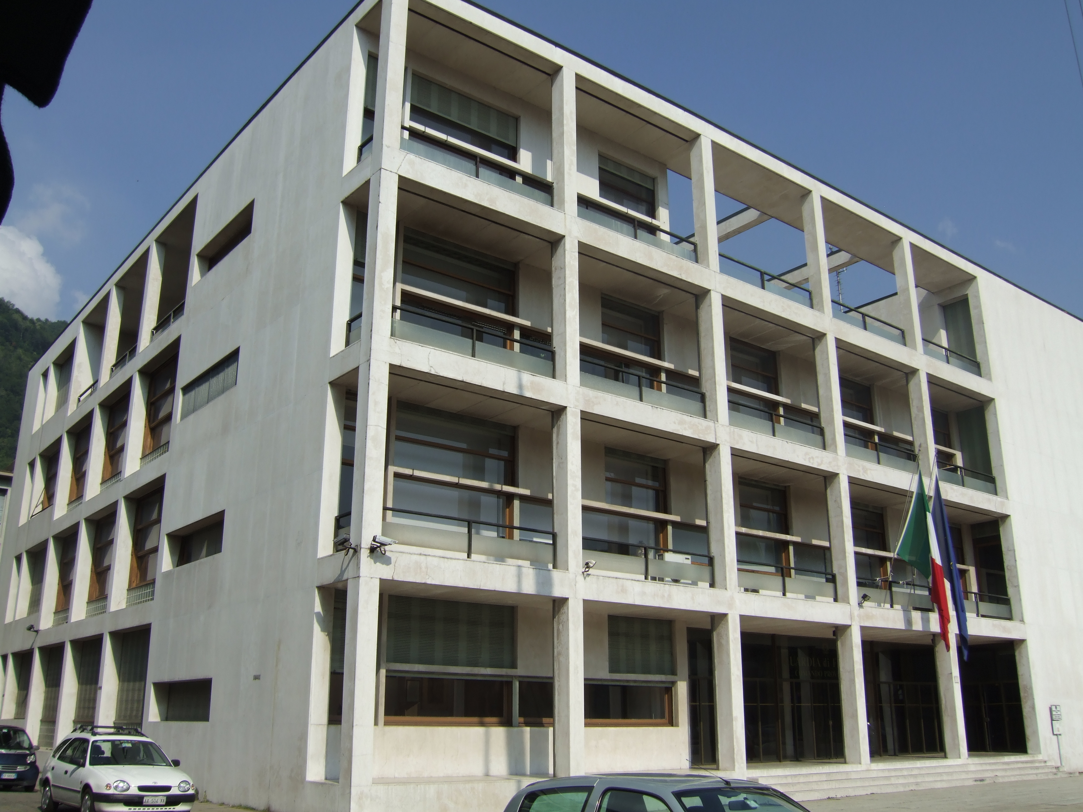 Originally (1936) "Casa del Fascio" (Fascist Party House) by Giuseppe Terragni (today Office of the Revenue Guard Corps-Como- Italy)